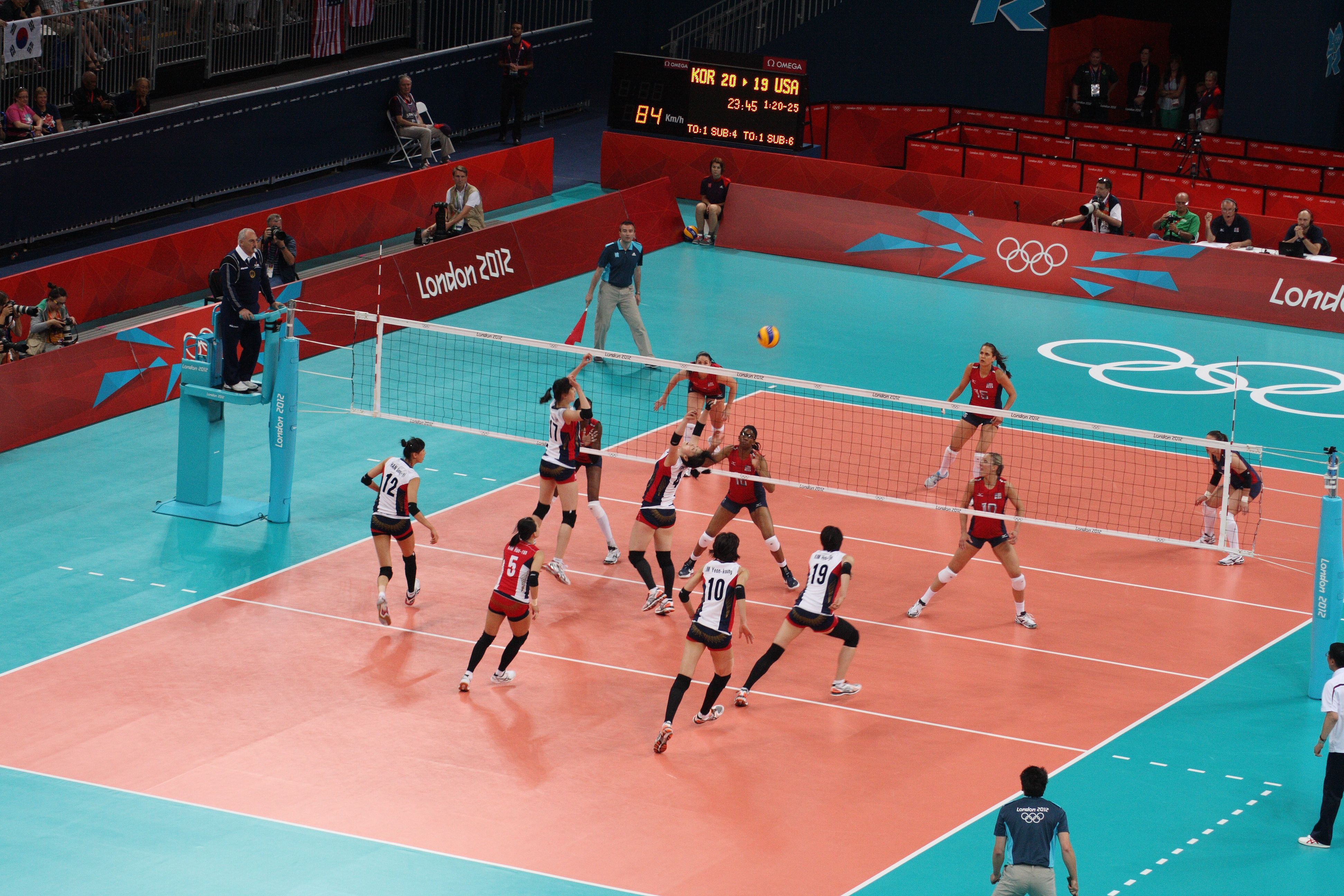 Women's Volleyball semifinals - 22